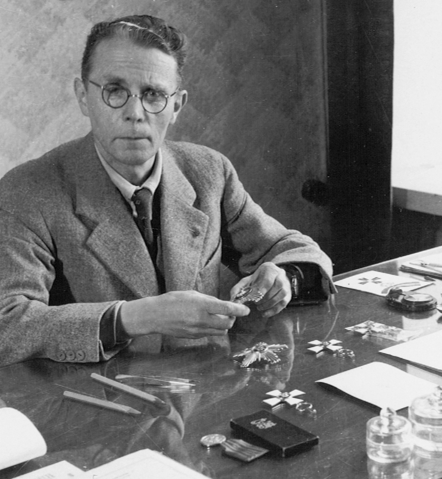 Photograph of the Finnish silversmith and Fabergé workmaster Oskar Pihl (1890–1959).